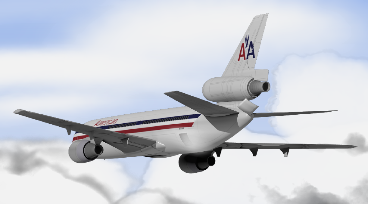 American Airlines Flight 96 loses its aft bulk cargo door (1972).